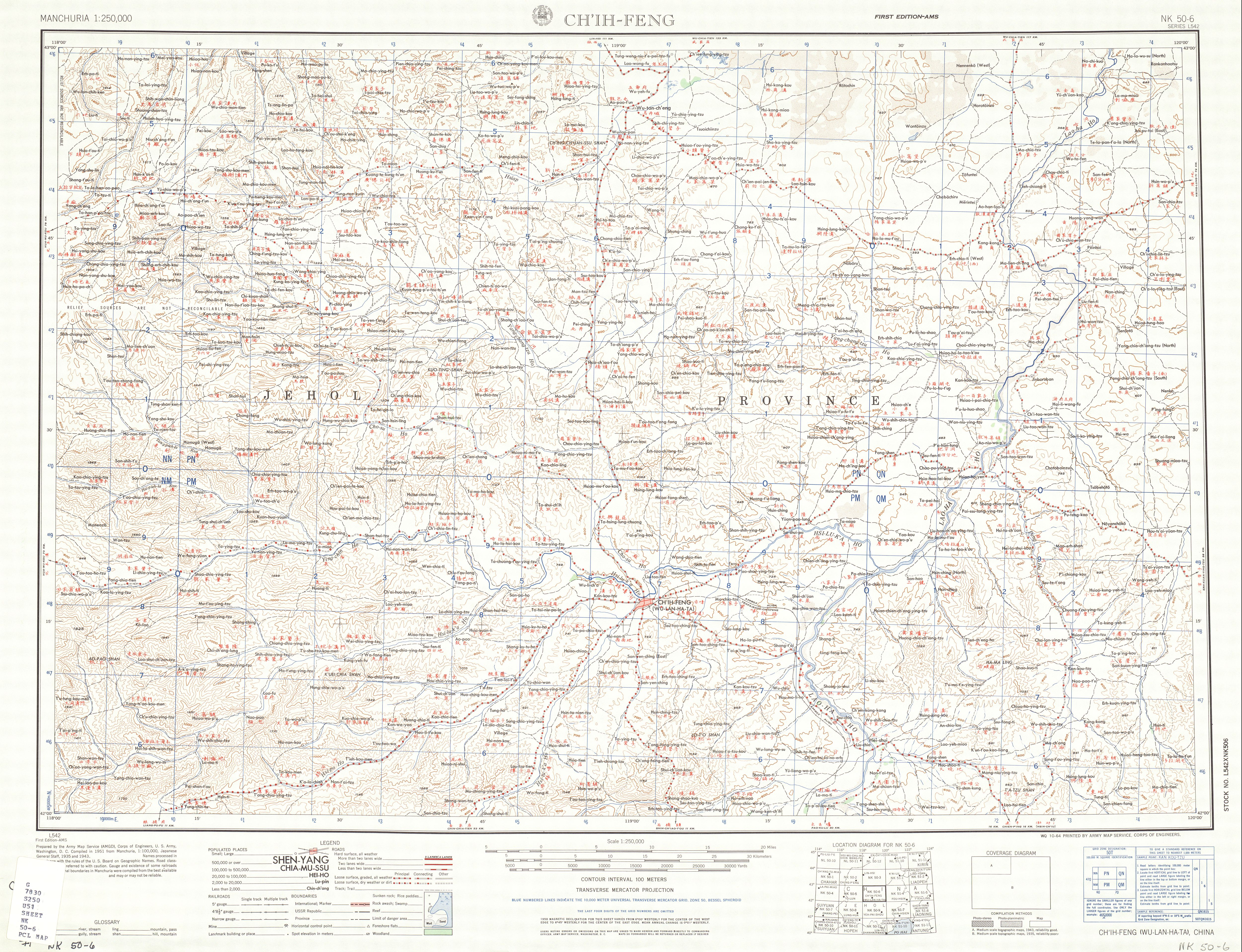 Manchuria AMS Topographic Maps